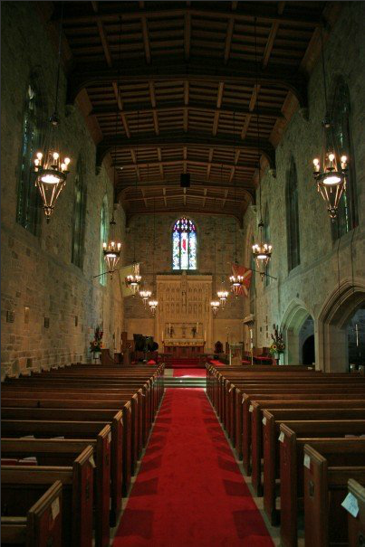 Ridley College Memorial Chapel.